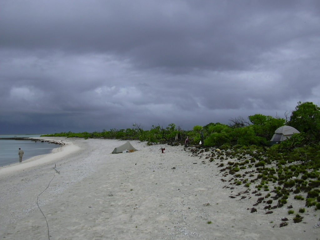 Lagoon-facing shoreline of Sibylla Island, Taongi Atoll, RMI.